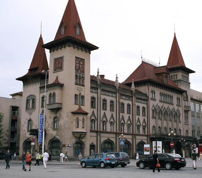 Saratov. Kirov Prospect 1. Saratov State Conservatory named L. V. Sobinov